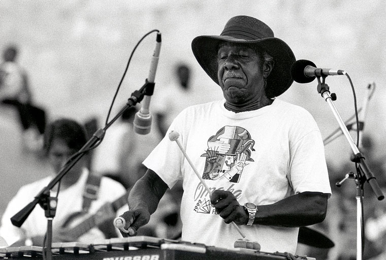 Omaha jazz great Lewis Luigi Waites-known locally simply as "Luigi"-plays the vibraphone during a tribute to Duke Ellington, July 29, 1999. CREDIT: "Omaha jazz great Lewis "Luigi" Waites plays the vibraphone during a tribute to Duke Ellington, July 29, 1999." Photo by Jim Williams, for "Joslyn Art Museum: Jazz on the Green," a Nebraska Local Legacies project Source: [ Library of congress]